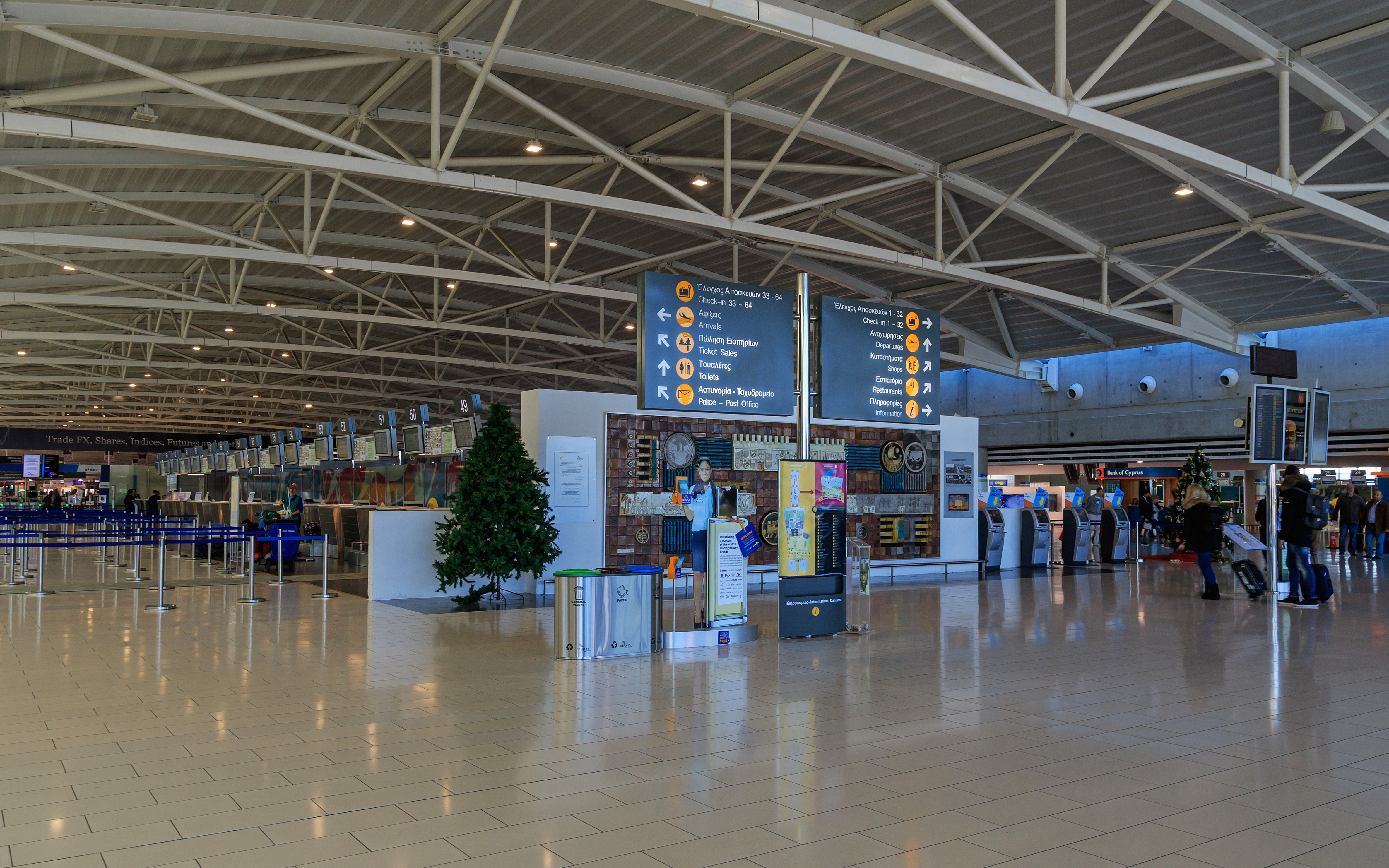 Larnaca International Airport, Cyprus: check-in counters